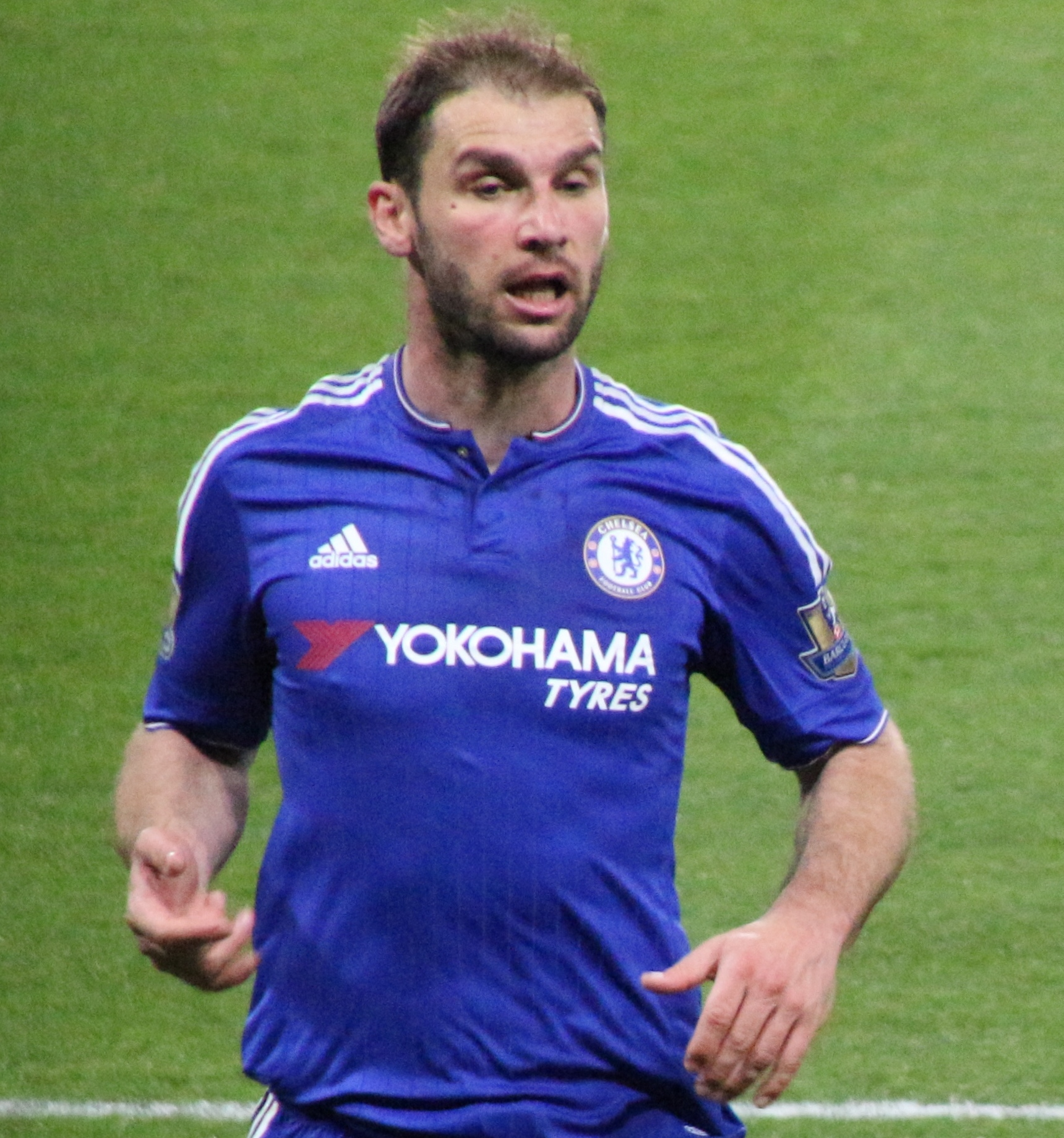 Branislav Ivanović on 2 May 2016 match between Chelsea vs Tottenham Hotspur.